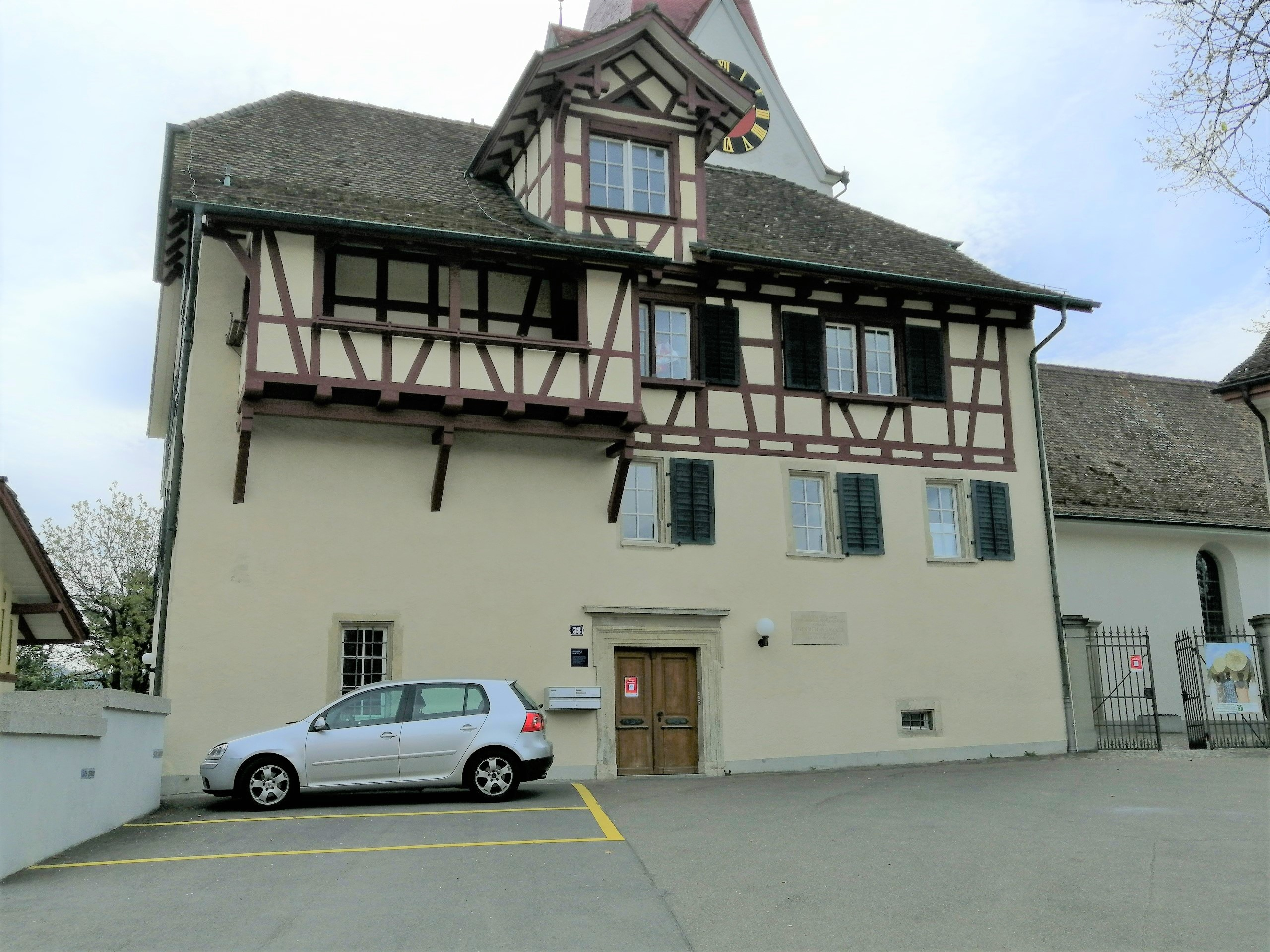 Höngg ZH Switzerland